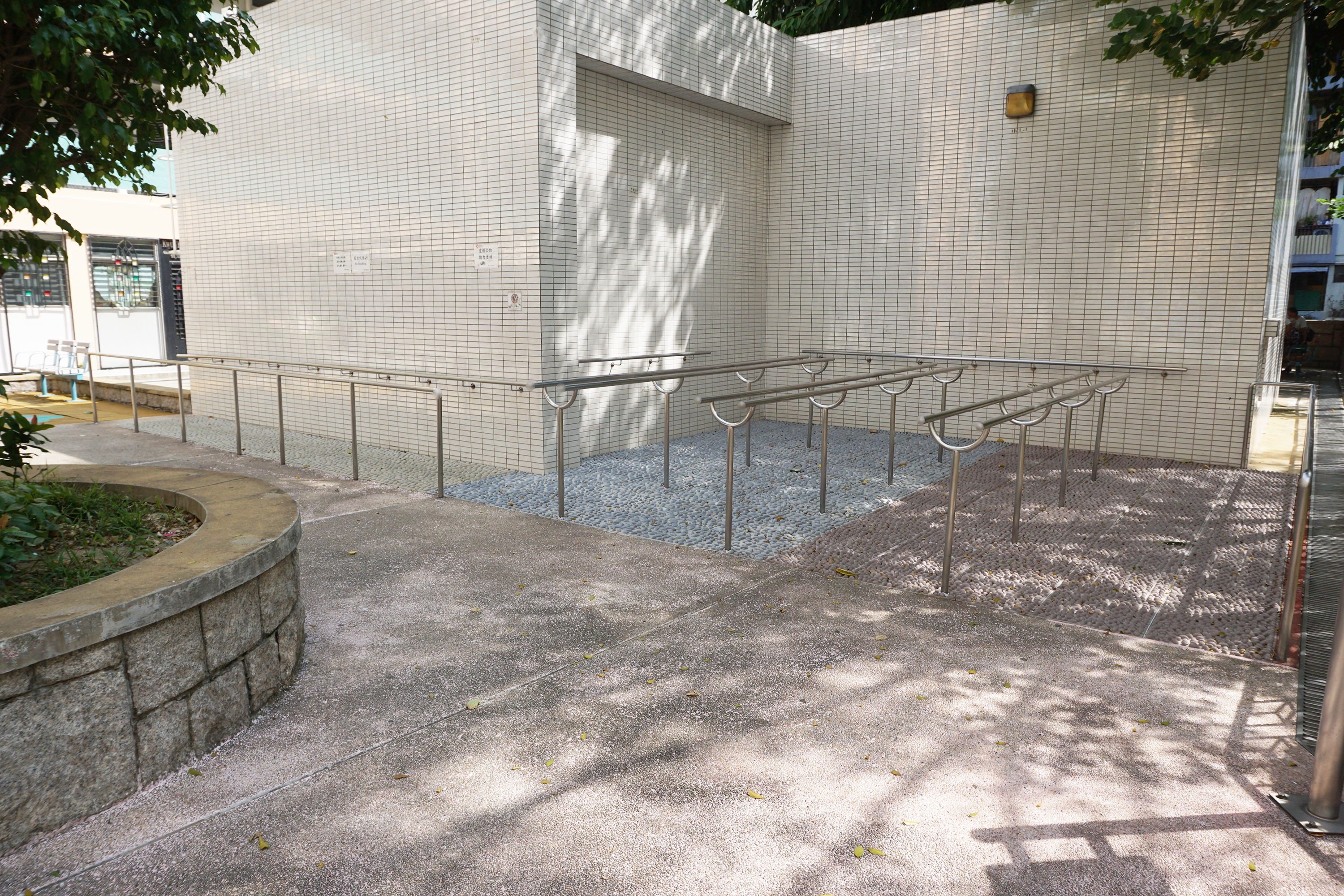 Kwun Tong Garden Estate in Ngau Tau Kok, Hong Kong.